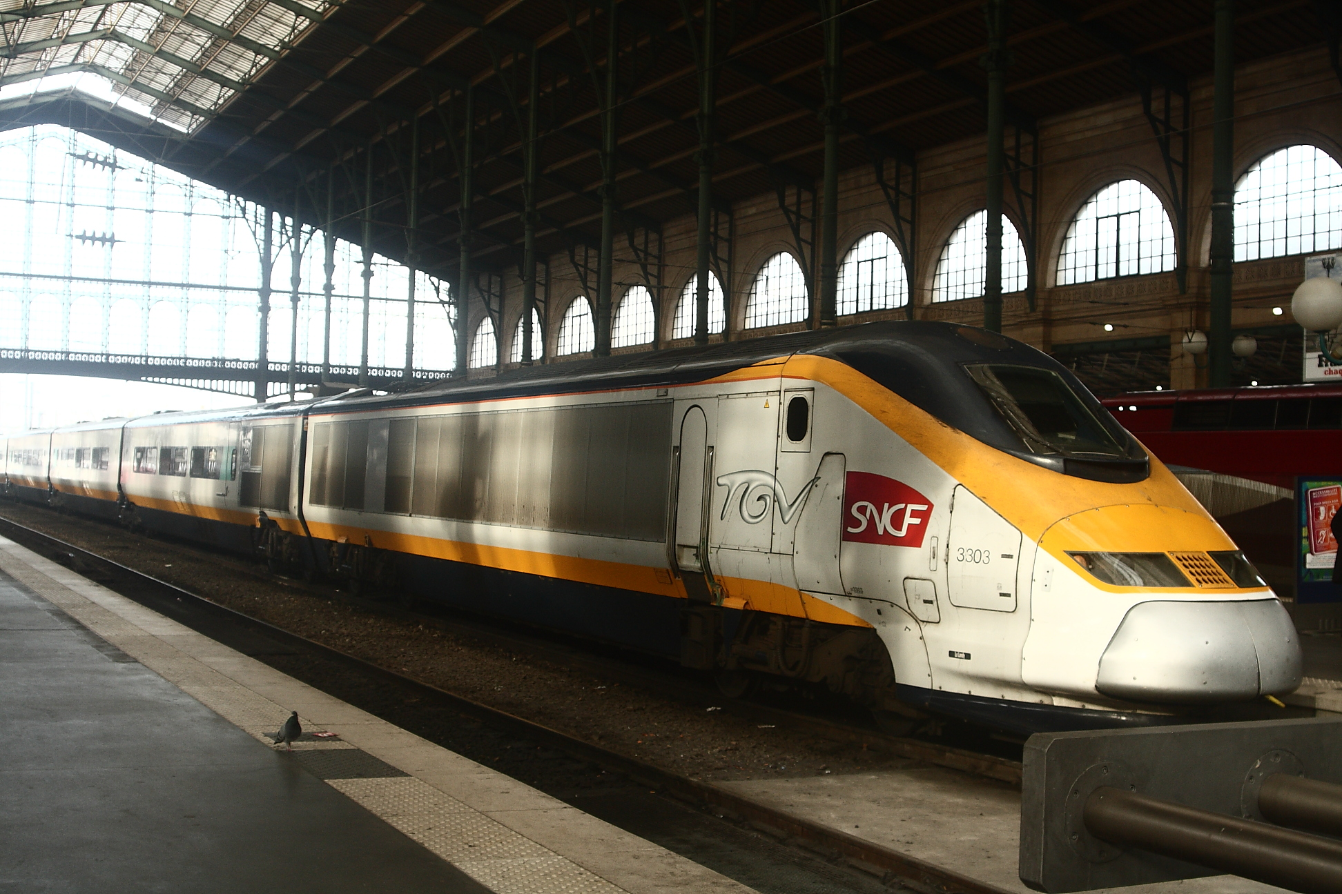 Eurostar train 3303 used for French internal services.